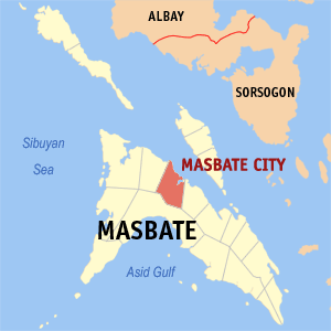 Map of Masbate showing the location of Masbate City